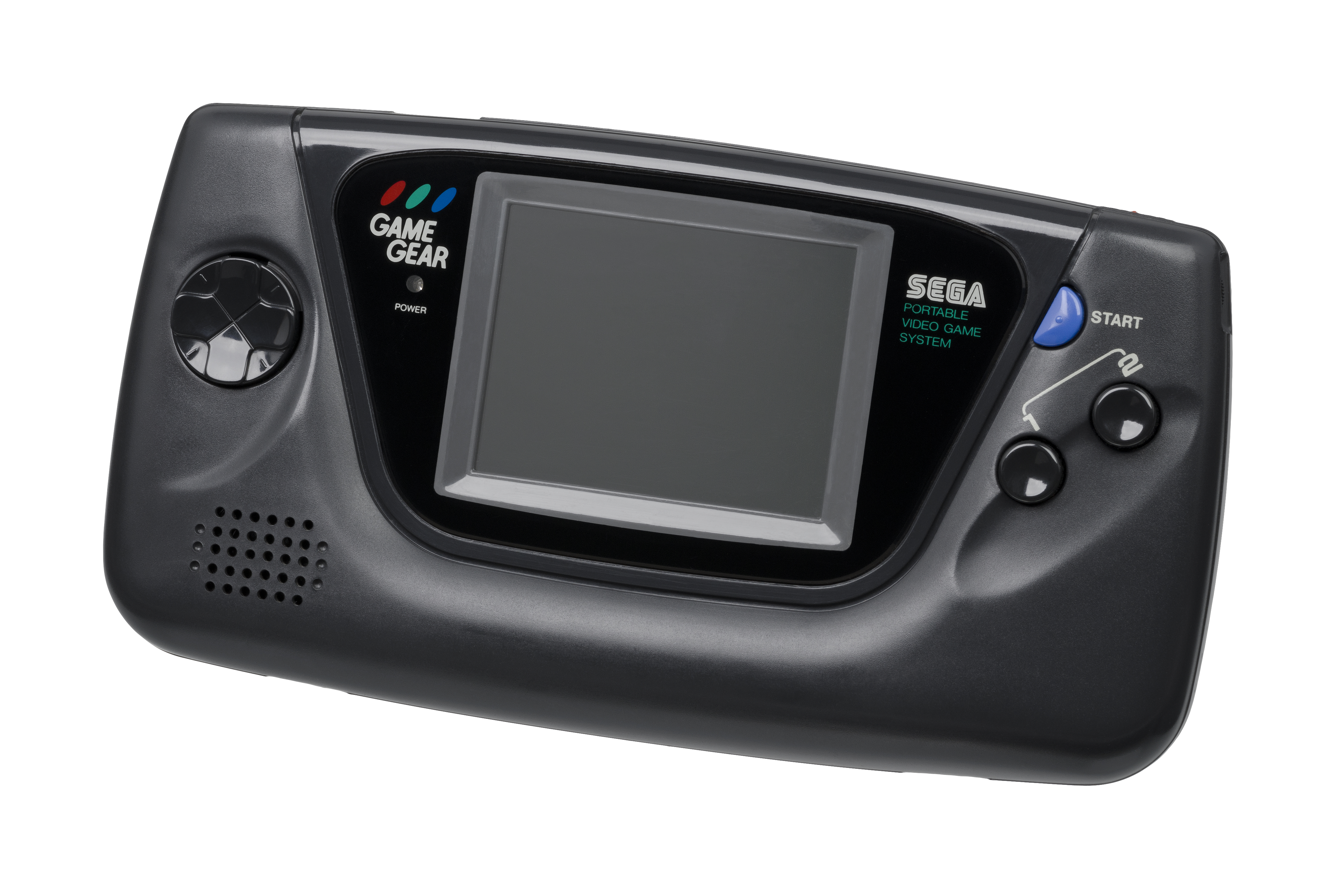 The Game Gear, a handheld video game system created by Sega and first released in 1990.